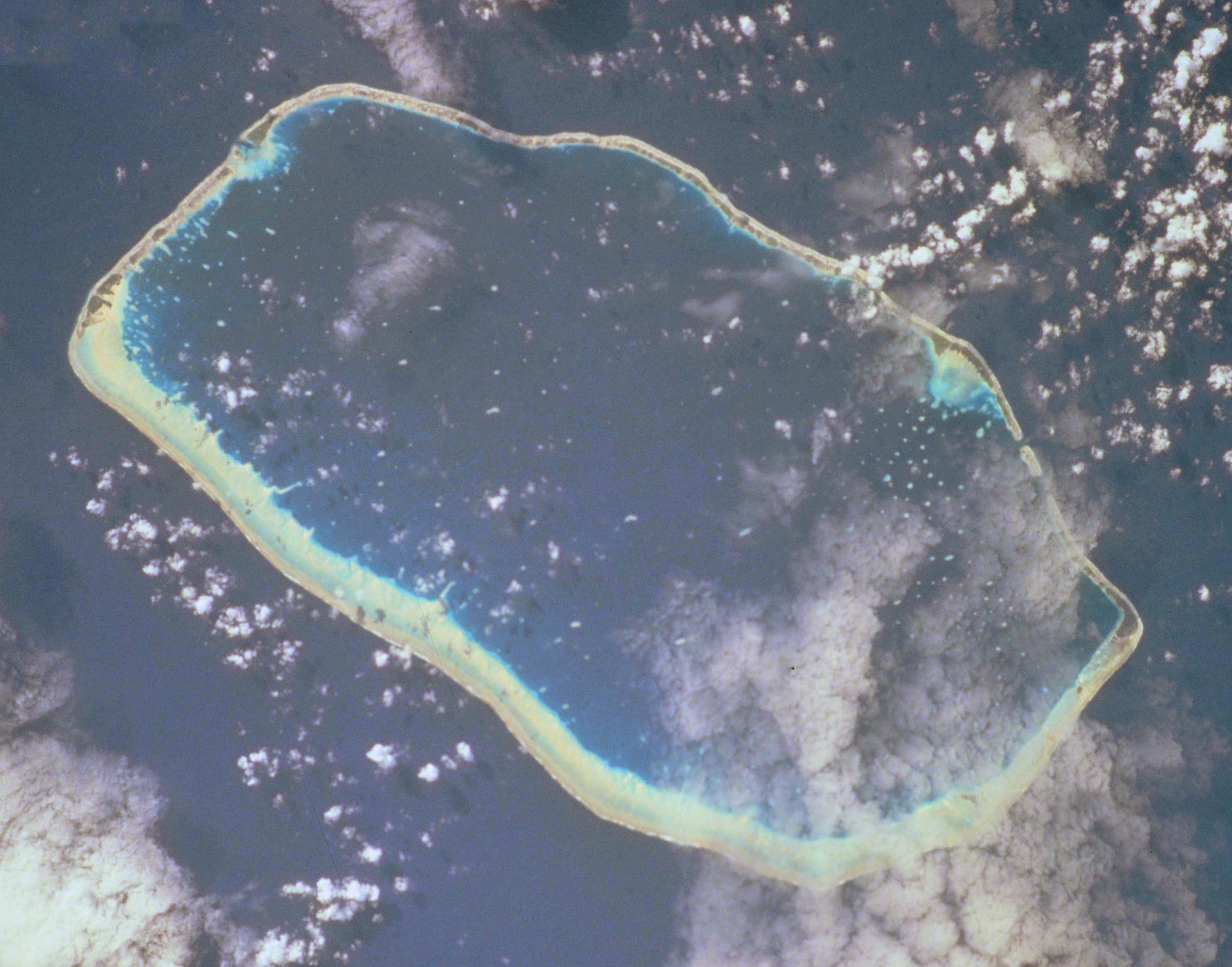 Atoll Toau (Tuamotu Archipelago, French Polynesia), from space.